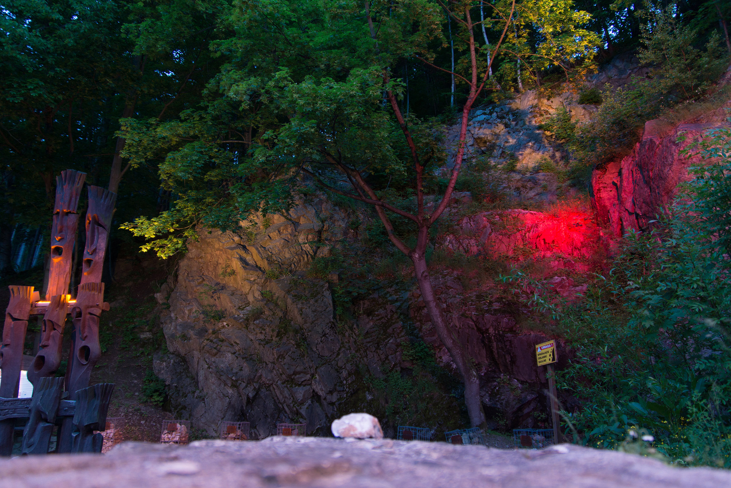 Hornfels in Karpacz